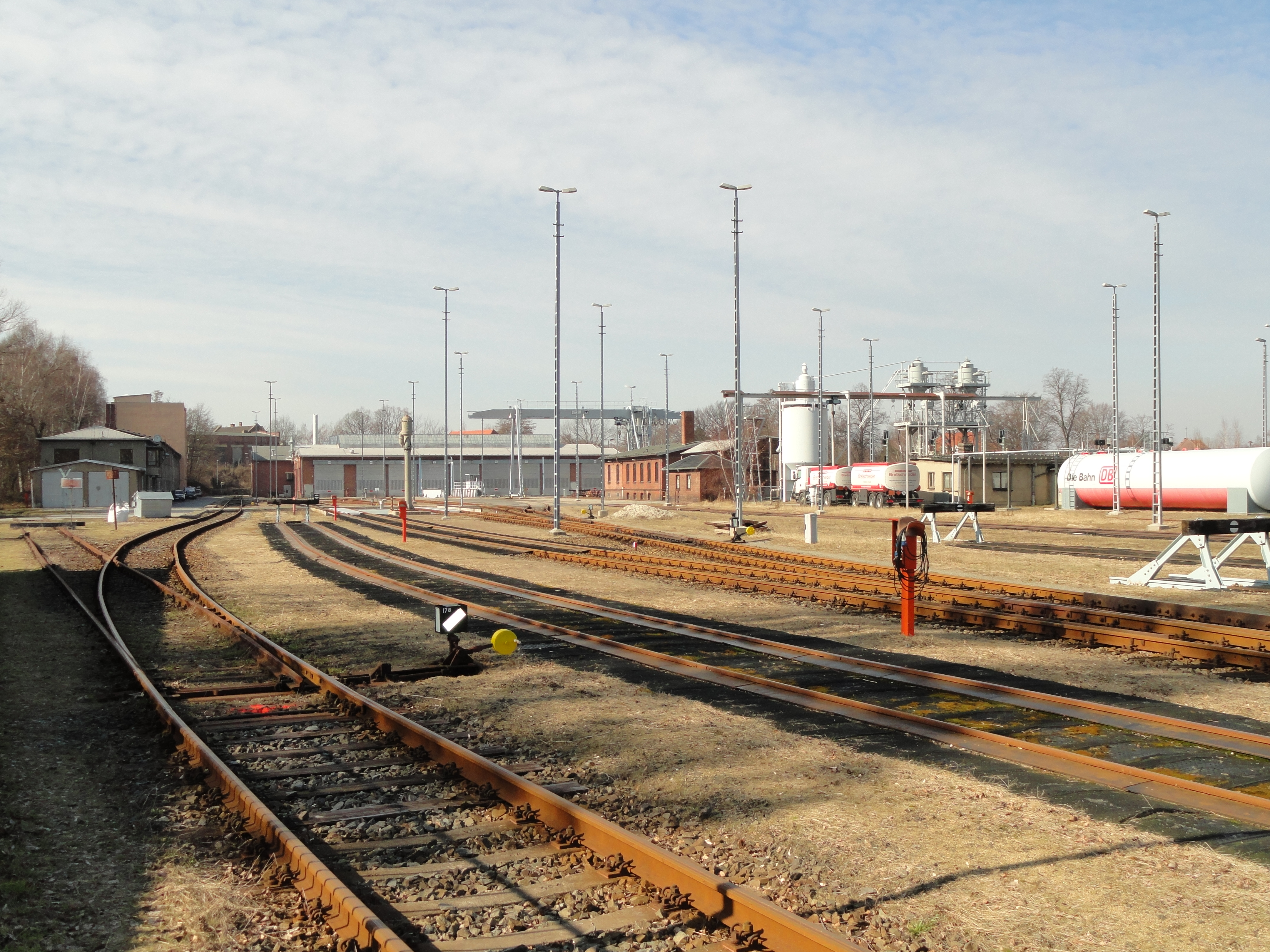 depot Görlitz